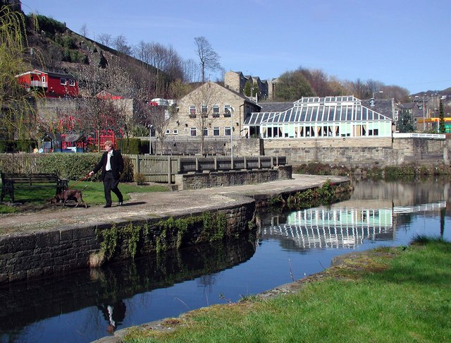 Salterhebble Offshoot of the Calder & Hebble Navigation between Bankhouse Lane and Huddersfield Road, Salterhebble, south of Halifax.